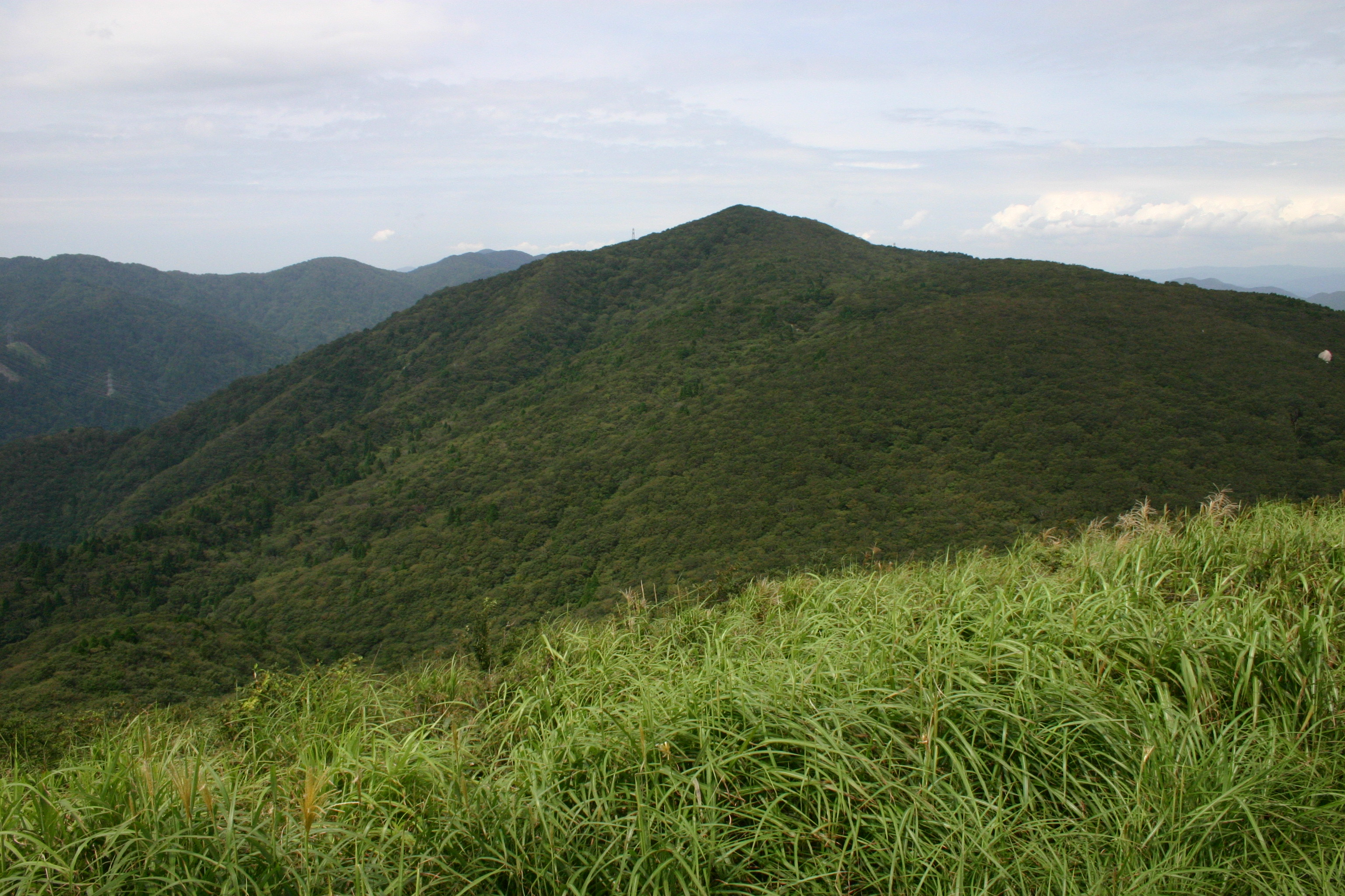 Mt. Mikuni seen from Mt. Akasaka (Border of Fukui Prefecture and Shiga Prefecture)